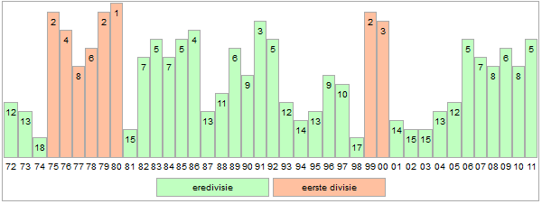 Dutch league positions of FC Groningen from 1972 till 2011